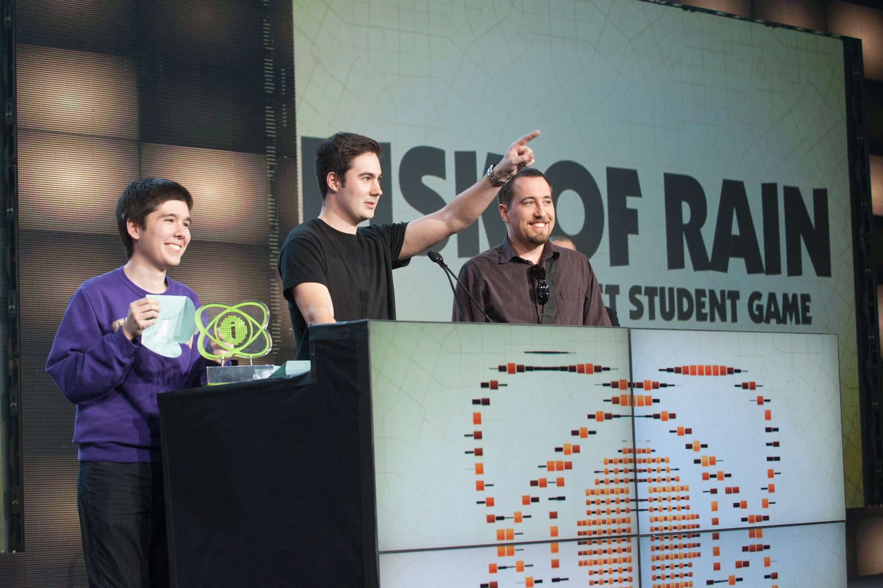 Duncan Drummond (left) and Paul Morse (center) (both of Hopoo Games) and Matthew Griffin (right) (of Yeti Trunk) receiving the Independent Games Festival award for "Best Student Game" at the 2014 Game Developers Conference, March 19, 2014